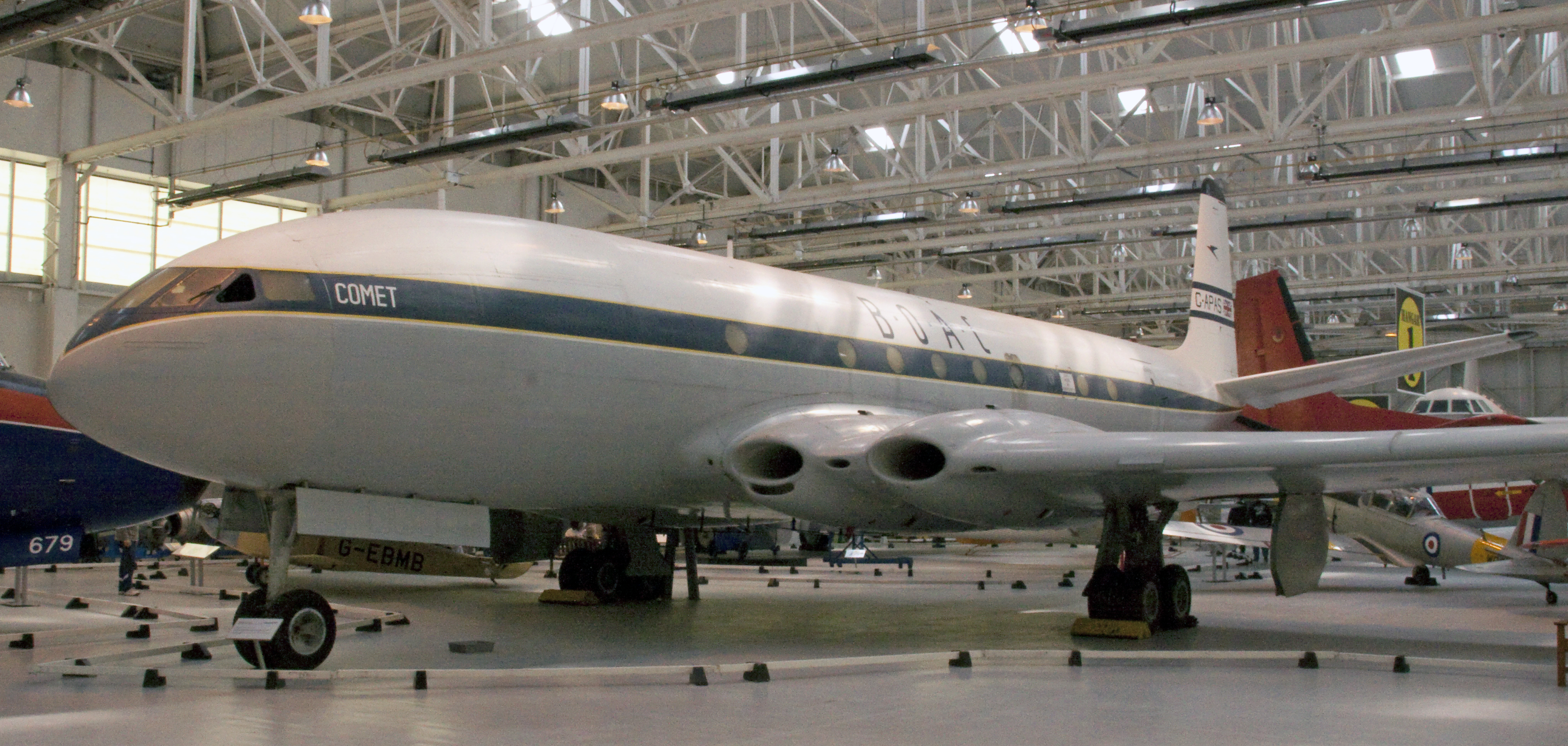 Comet.